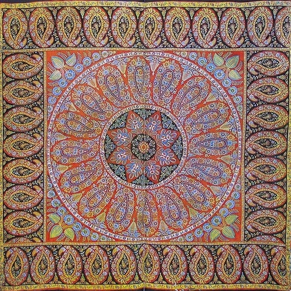 Sokov calico, Ivanovo